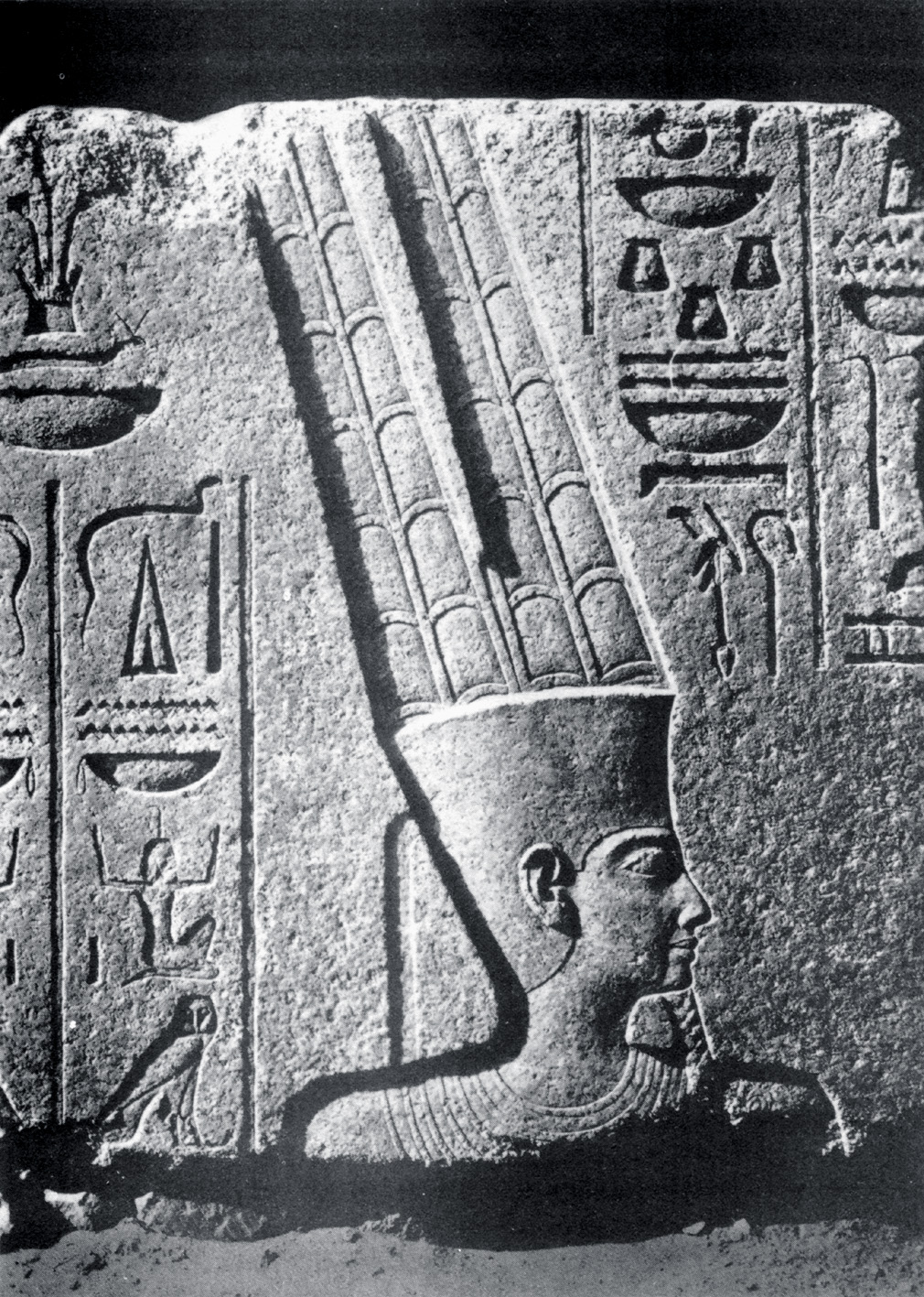 Amun-Re, chief god of the Theban Triad. Relief from the Karnak temple complex.